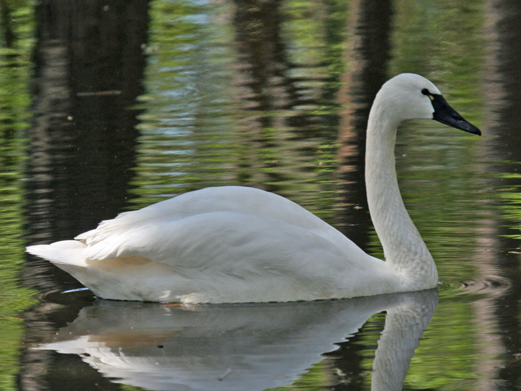 Whistling Swan (Cygnus columbianus columbianus) - Pine Grove Waterfowl Park, Virginia.